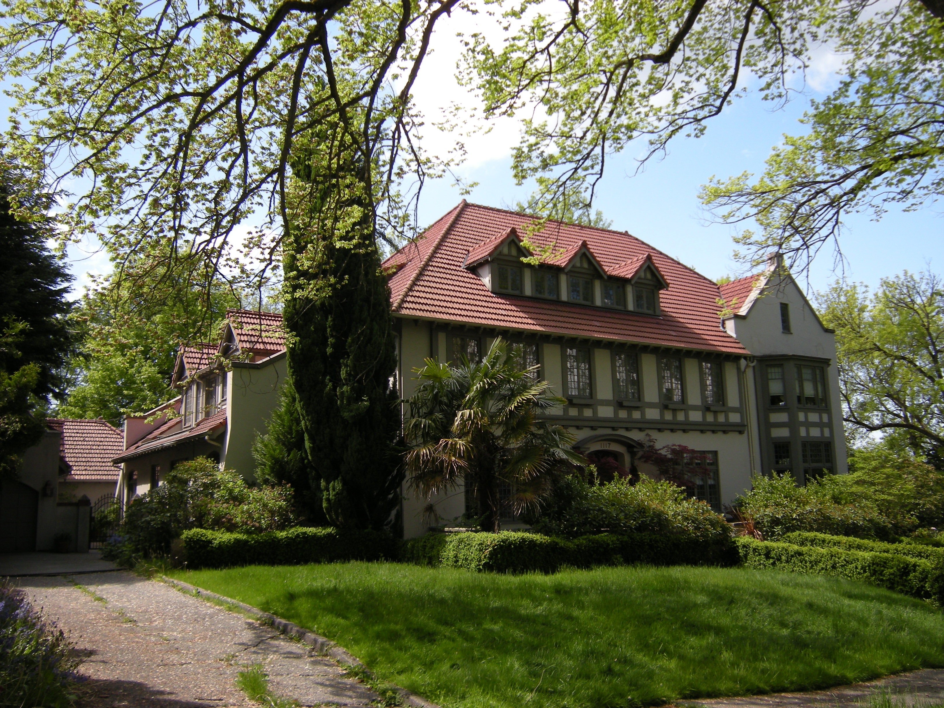 1117 36th Avenue East, Seattle, Washington, USA. The house, designed by Arthur L. Loveless of Wilson & Loveless, was originally built for Alexander Pantages. The neighborhood would variously be considered Madison Park or Washington Park (no clear boundary).